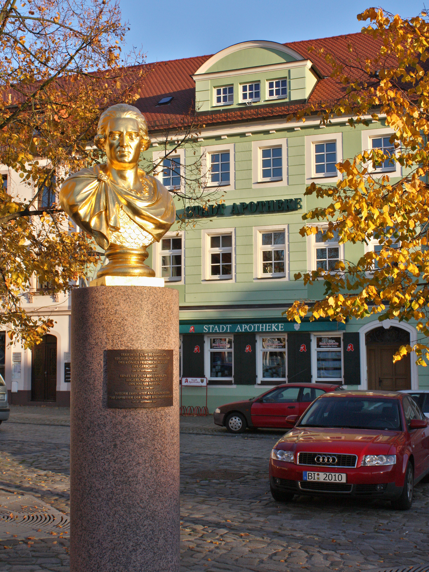 Memorial for Frederick Augustus I of Saxony in Bischofswerda in the district of Bautzen in Saxony, Germany. Old pharmacy in the back.